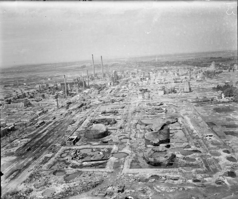 Royal Air Force Bomber Command, 1942-1945. A large devastated industrial plant on the north east outskirts of Hanover.